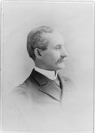 William Sooy Smith from 1870-1900.